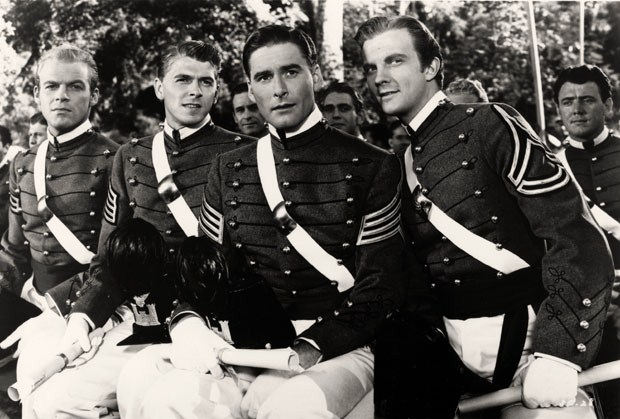 L. to R. : David Bruce, Ronald Reagan, Errol Flynn & William Lundigan in Santa Fe Trail - publicity still